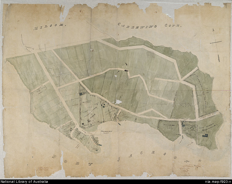 Earliest detailed map of Kirribilli Point. Robert Campbells Estate, Milsons Point and Kirribilli, Sydney. Scale indeterminable. Map of peninsula at North Sydney showing leases, roads, weather board cottages, jetties, wells, orchards, bee hives, milking bails and stables and the graves of the three typhoid victims and the attending physician from the Surry. inset. Amicus Number: 8560781.